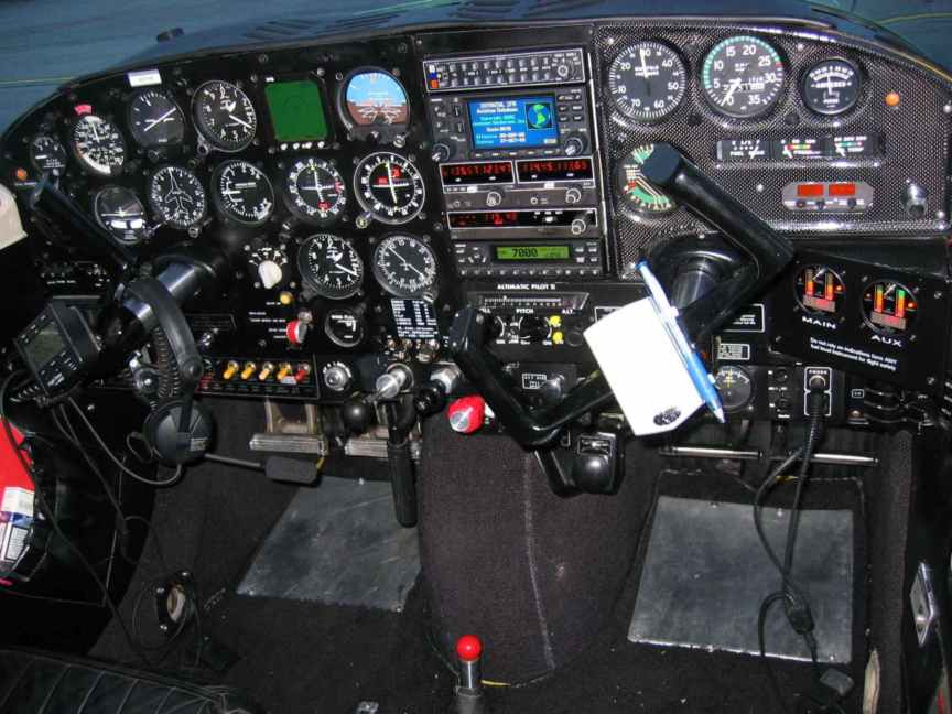 Piper PA-24 260B Comanche Instrumentation